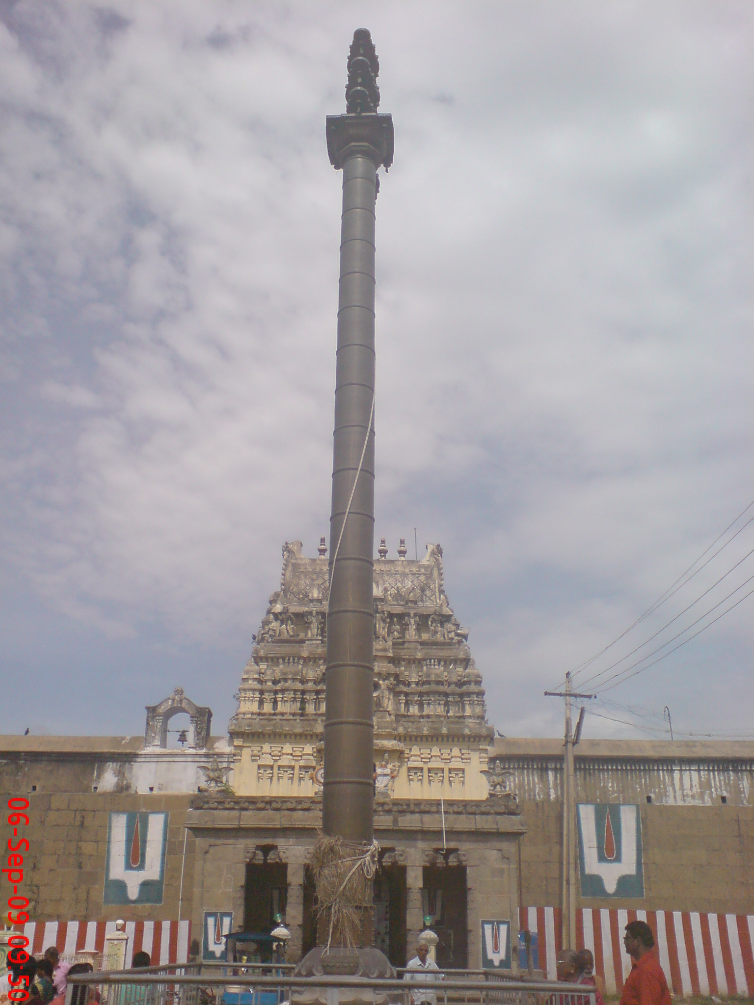 Kanchipuram Temple, Tiruputkuzhi